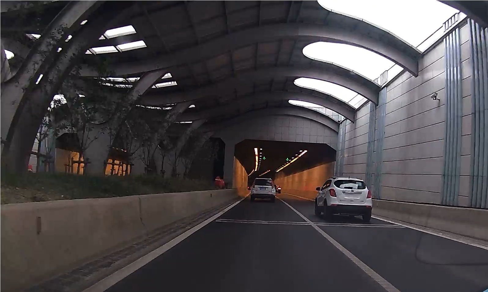 North entrance of Nanjing Yangtze River Tunnel，from a driving recorder.